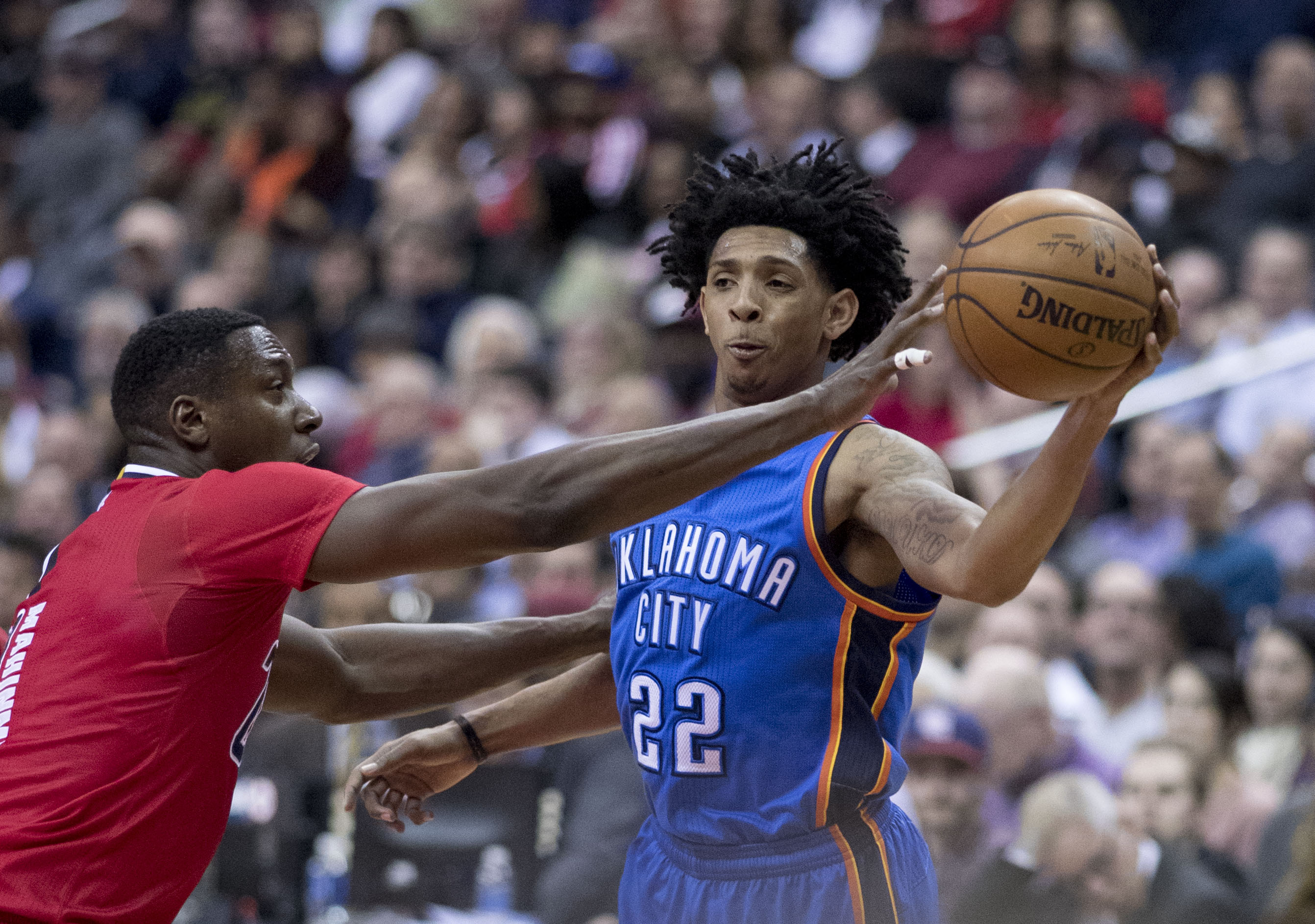 Thunder at Wizards 2/13/17